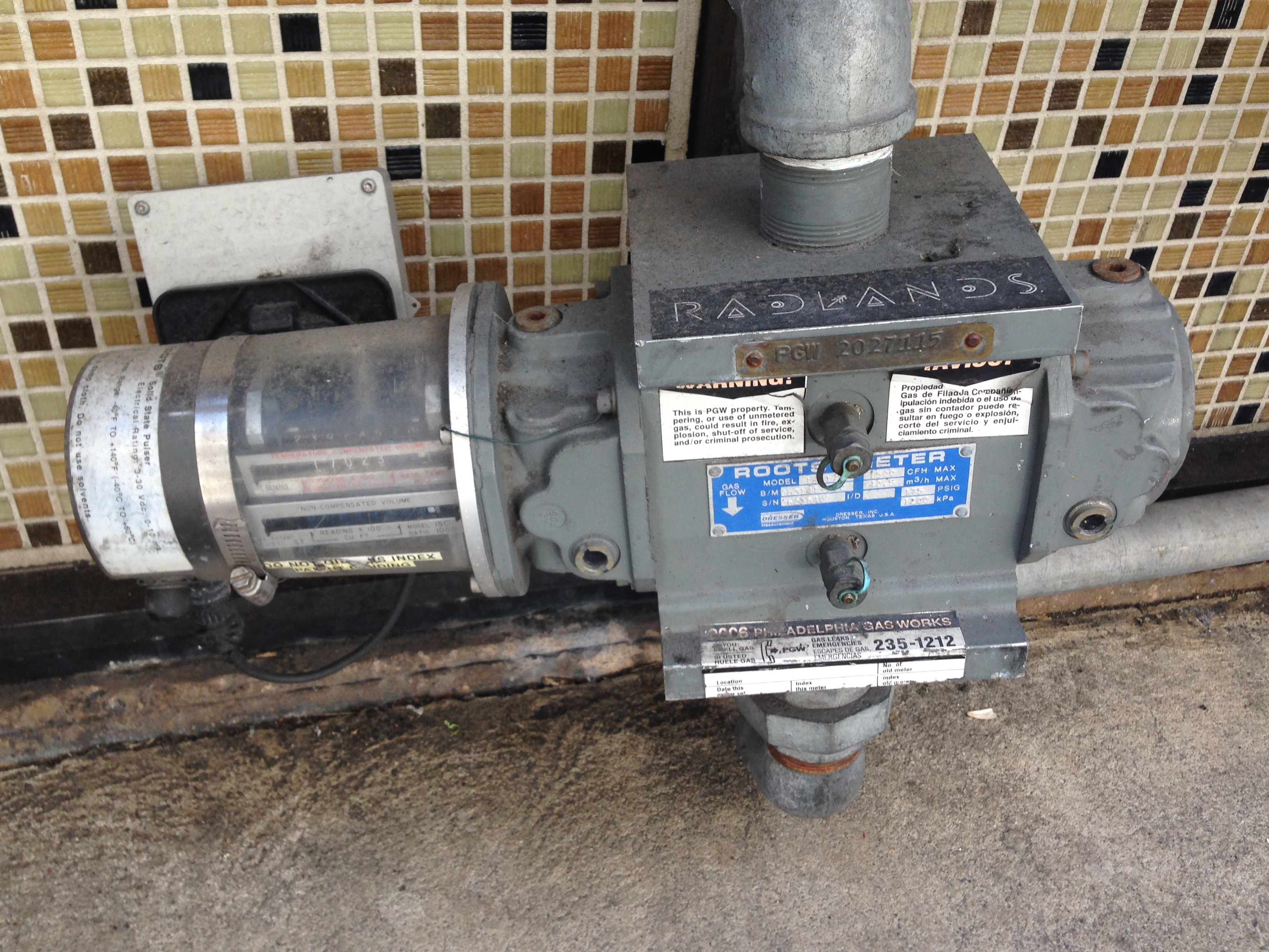 Gas meter with solid state pulser for remote reading.